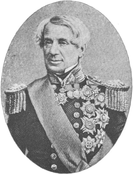 From an 1857 engraving by D.J Pound, after a photograph by Kilburn. This image has been scanned from the engraving held by the Lyons family. Originally uploaded by User talk:Lyonsn. Re-uploaded due to vandalism by another user.